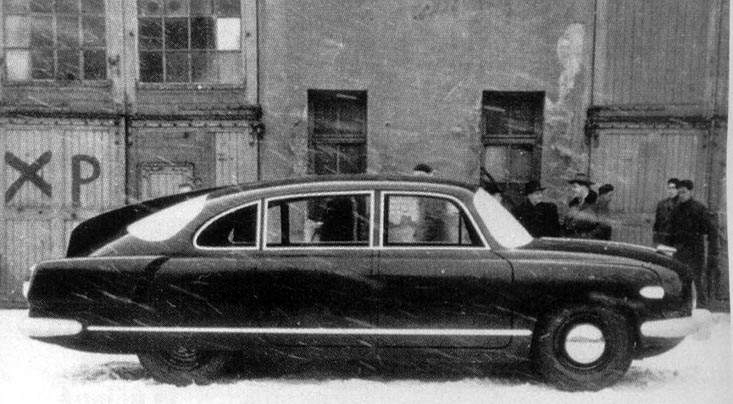 Tatra 603 - Mock-Up (1955) Photo: Archive O.Ertl